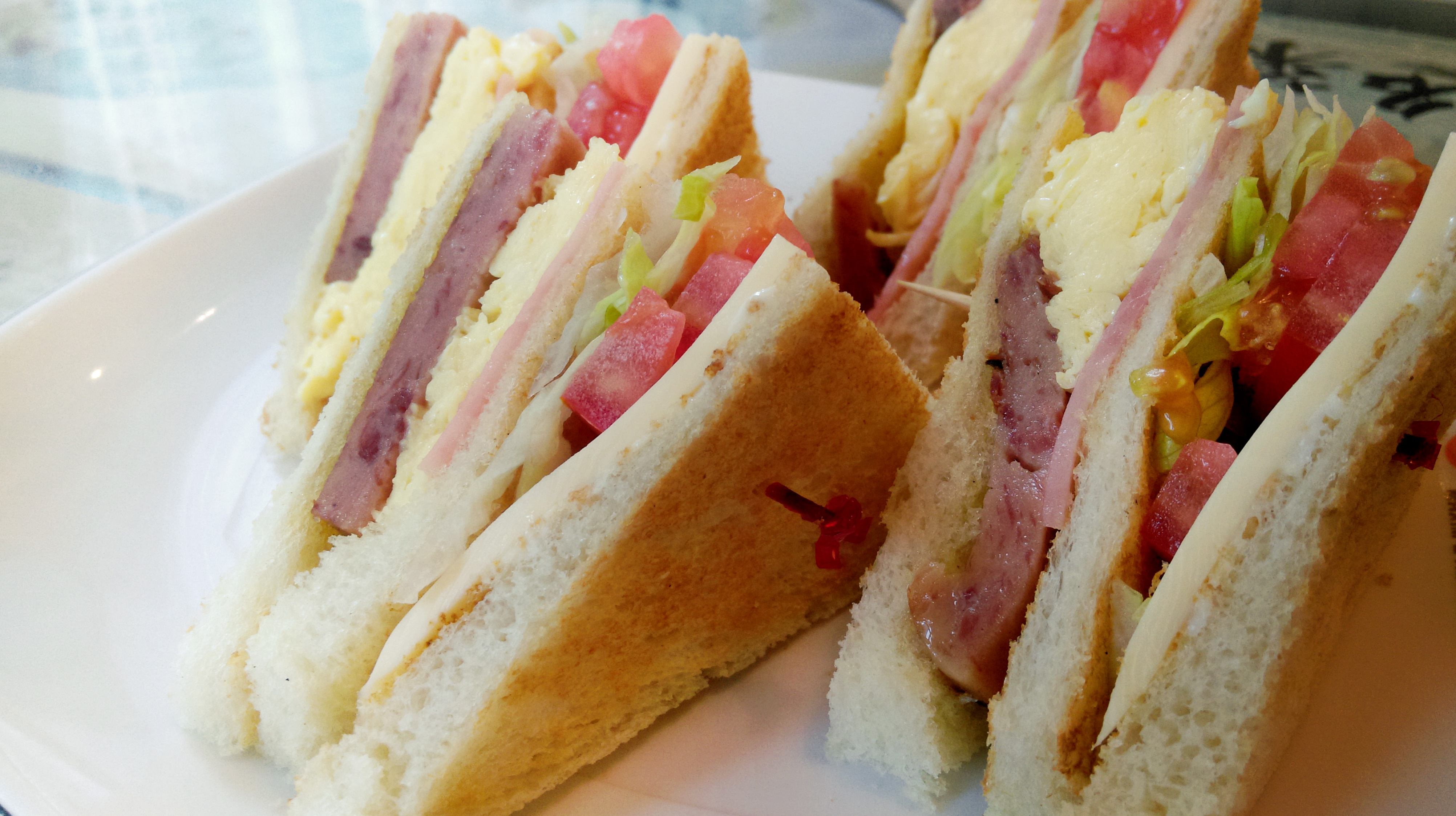 Club Sandwich, Hong Kong style